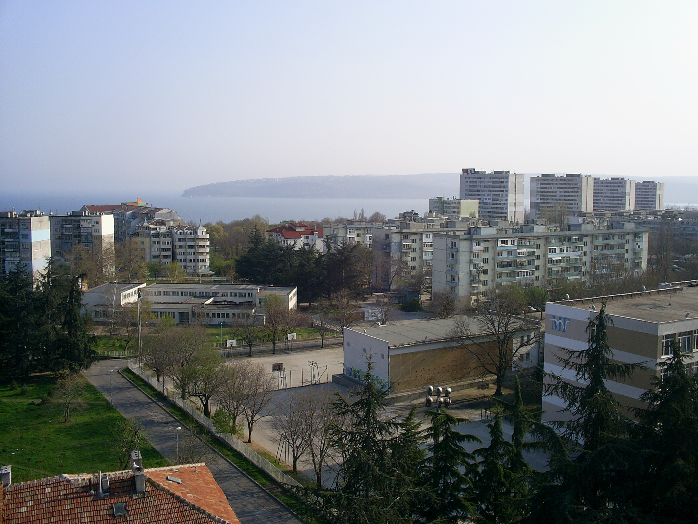 Chaika estate, Varna, Bulgaria